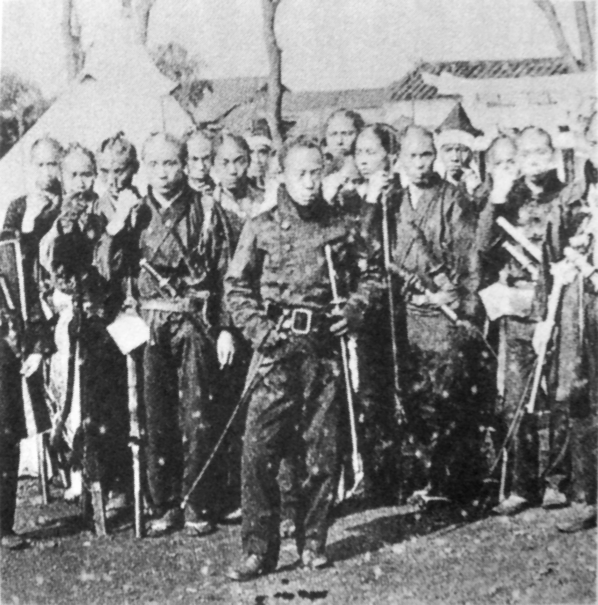 Bakufu_soldiers_in_Western_uniform